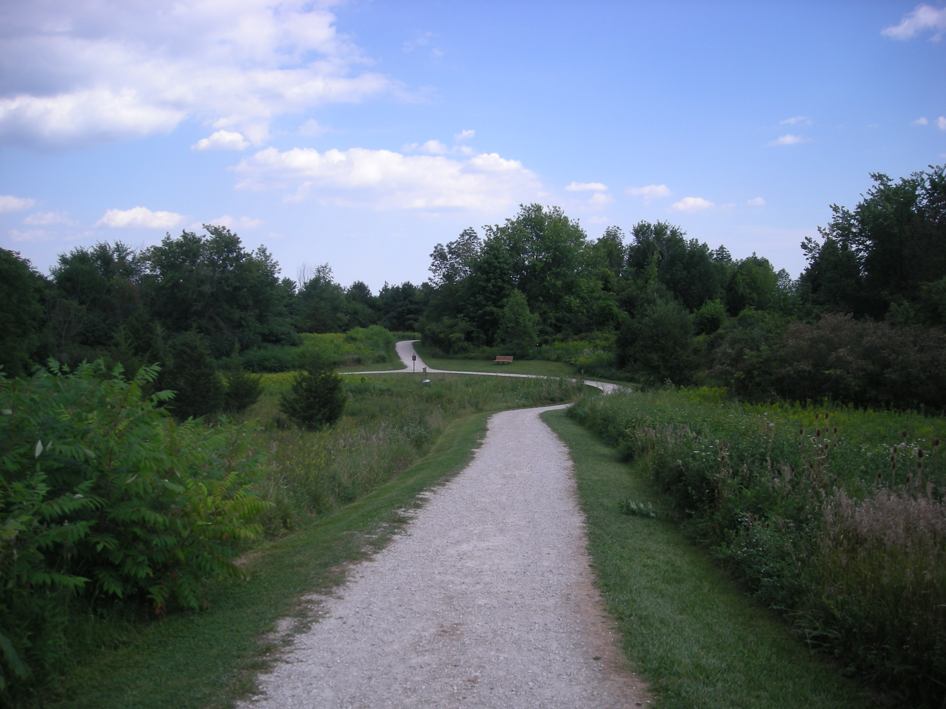 The Outer Loop trail at County Farm Park in Ann Arbor, Michigan (United States).